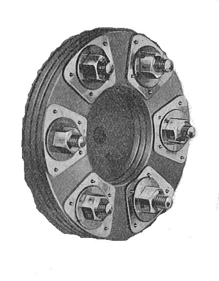 Hardy flexible coupling (Autocar Handbook, Ninth edition).jpg